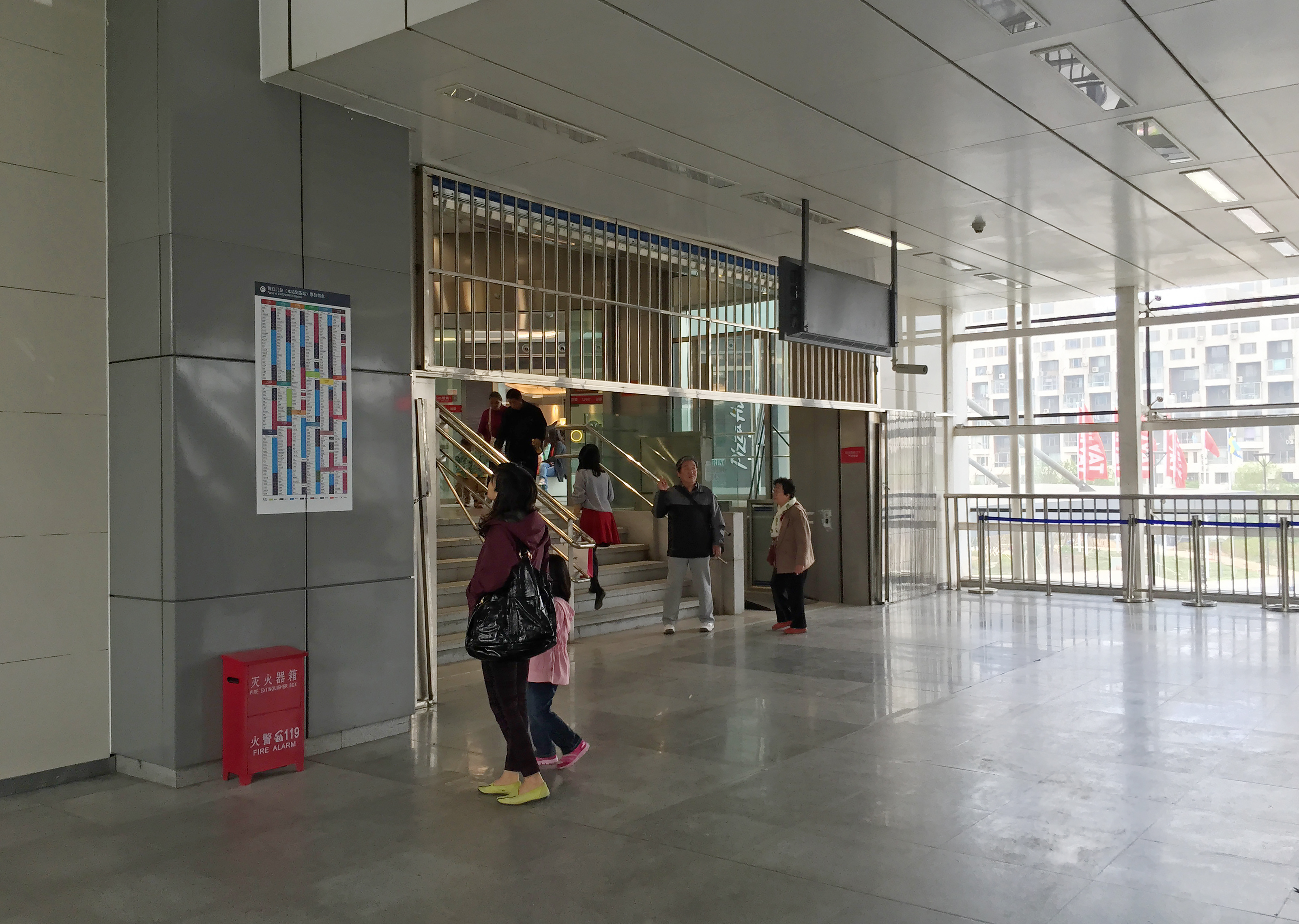 This is a direct threshold to LIVAT and IKEA.